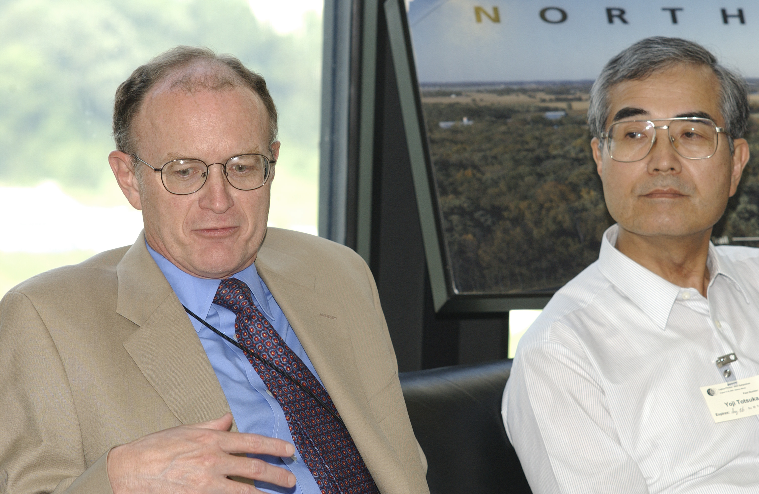 Michael Witherell, Director of the Fermi National Accelerator Laboratory, and Yōji Totsuka, Director General of the High Energy Accelerator Research Organization, attended the "Lepton Photon Conference" at the Fermi National Accelerator Laboratory in Illinois State on August 15, 2003.